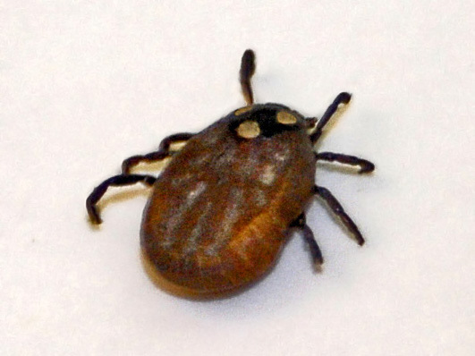 Female of Dermacentor circumguttatus. Museum specimen